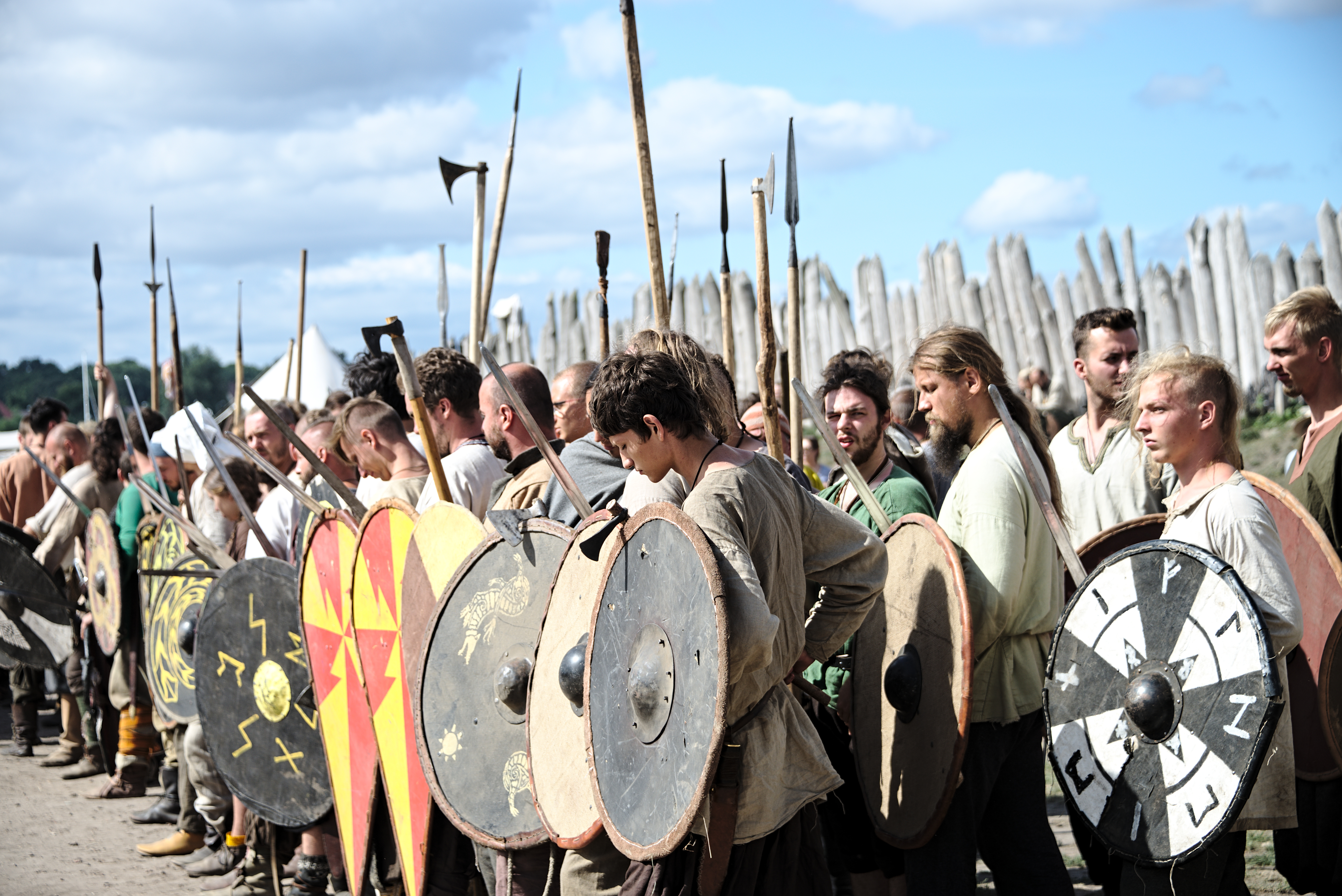 Slavic and Wiking Festiwal in Wolin